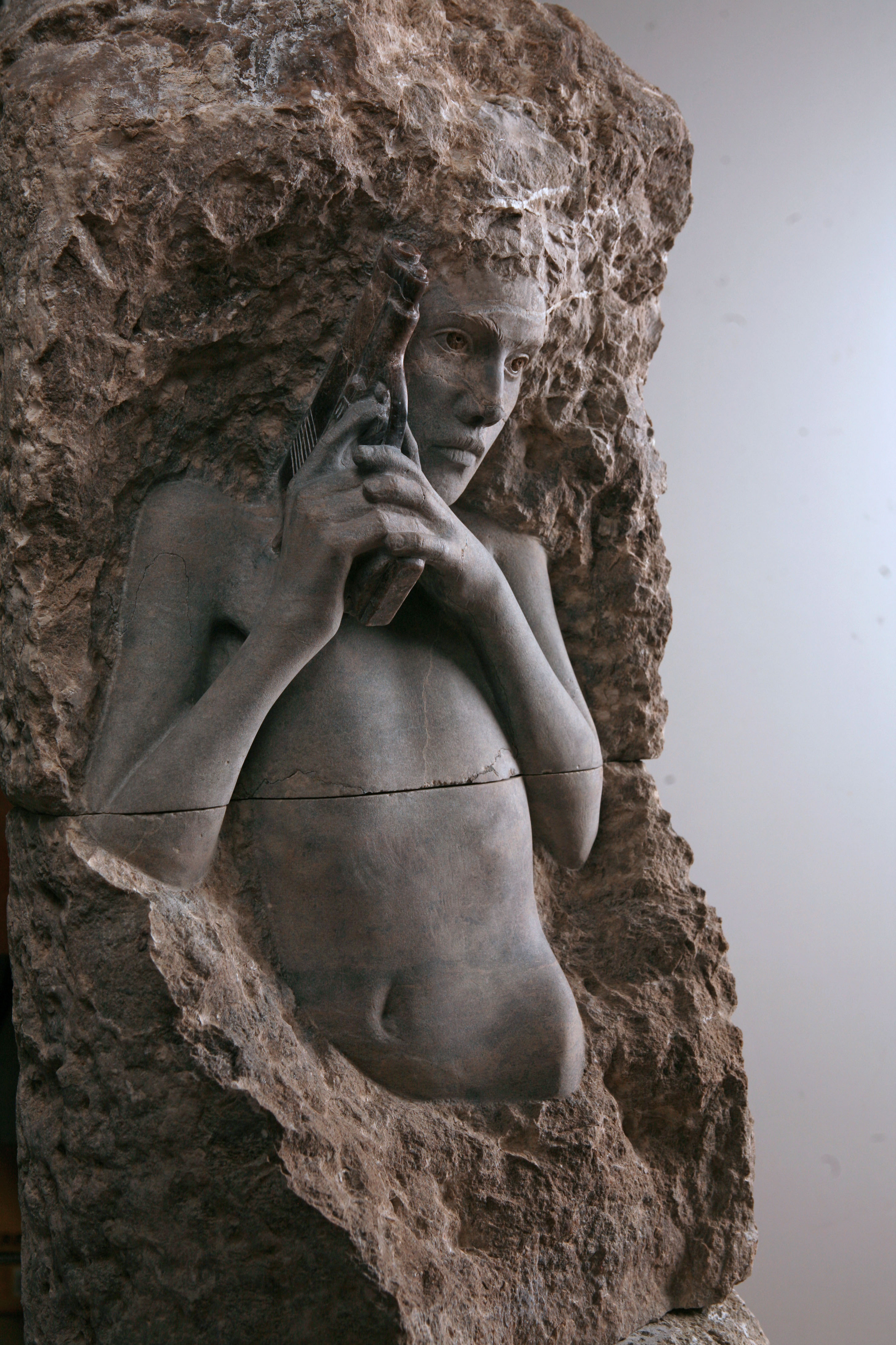 Sculpted from a discarded and fractured 18th century column rescued from a land fill.